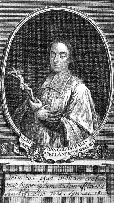 Portrait of François de Pâris (1690–1727), from La vie de monsieur de Paris, diacre, by Pierre Boyer (1731).